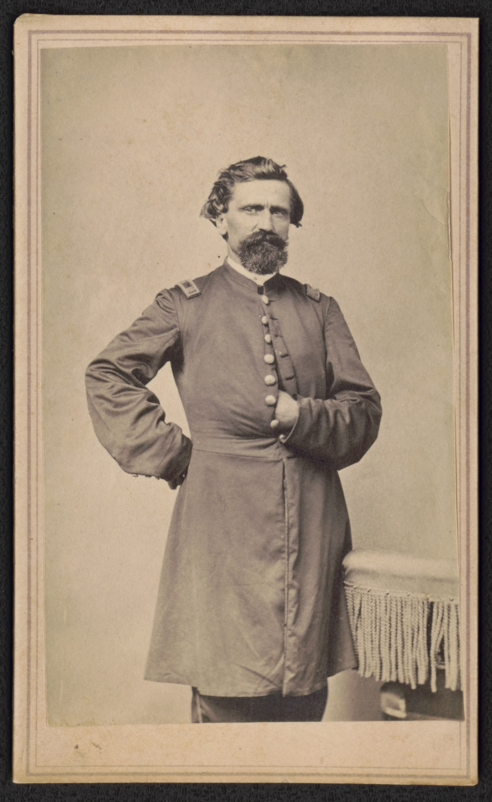 Title: Captain Joseph H. Evans of Co. G, 31st Iowa Infantry Regiment in uniform] / Campbell & Ecker, photographers, 407 Main Street, Louisville, Ky Abstract/medium: 1 photograph : albumen print on card mount ; mount 11 x 6 cm (carte de visite format)